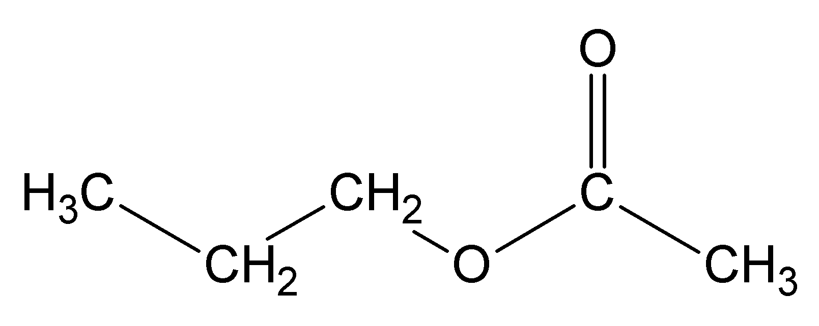 Comments High-resolution black/white .PNG made with ChemSketch and Photoshop — see WikiProject Chemistry - structure drawing for detailed instructions. Please drop me a note if you need the source file. Category:Chemical structures (Original text: Chemical structure of Propyl Ethanoate)